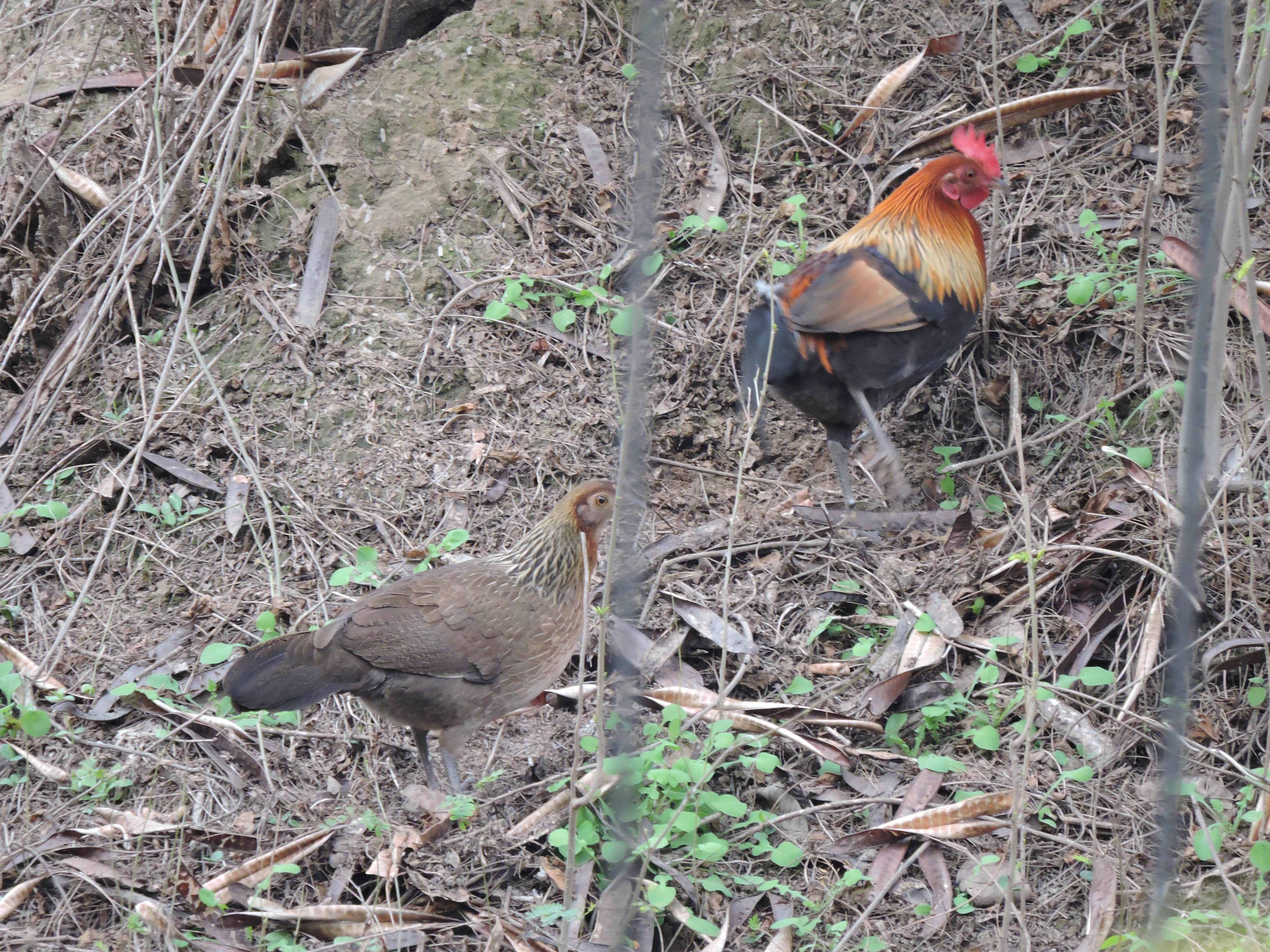 Jungle fowls in Sukhna Wildlife sanctury, Chandigarh, India